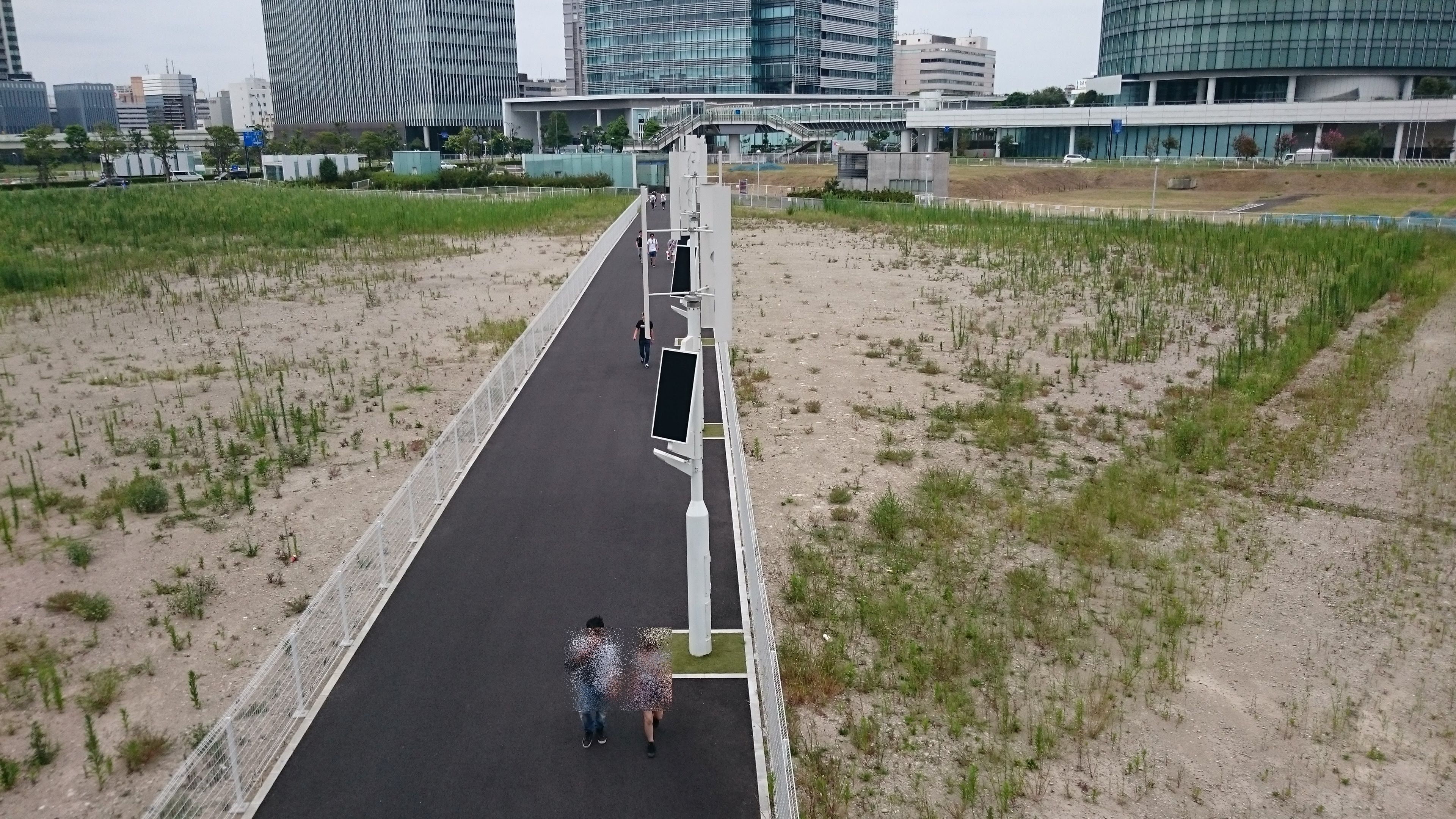 The area surrounding Shin-Takashima Station in Yokohama, Japan